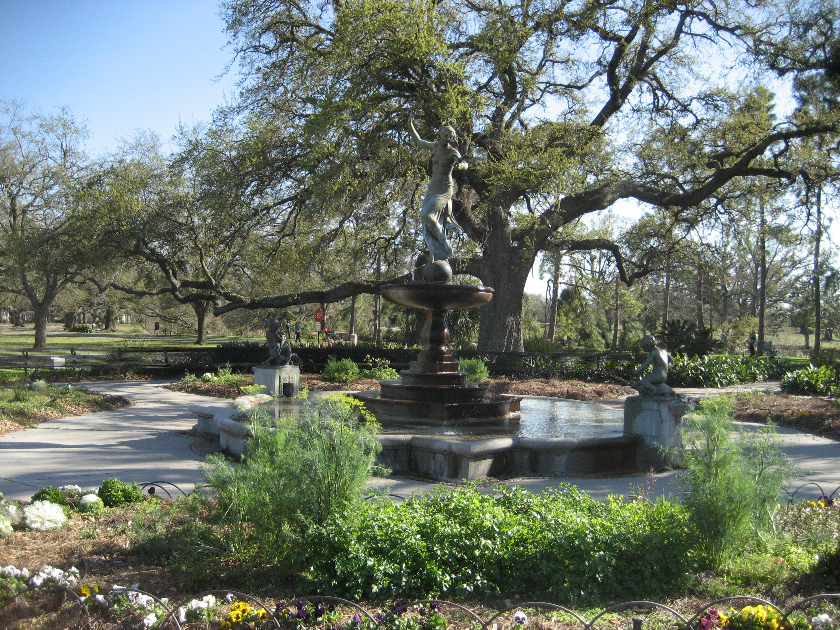 Audubon Park, New Orleans, Louisiana. Fountain in from St. Charles Avenue side entrance